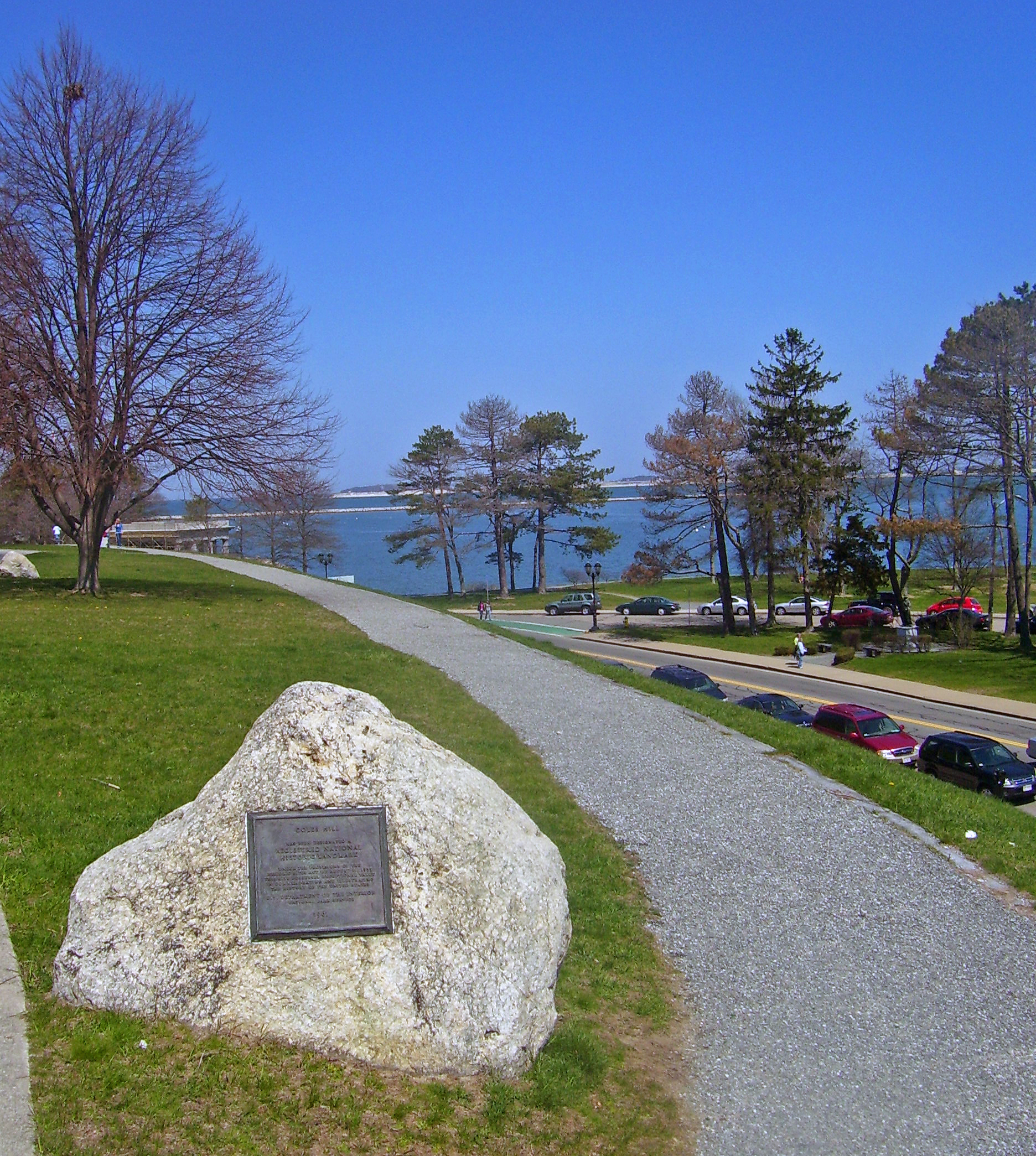 Cole's Hill in Plymouth, MA, USA, site of the Pilgrims' settlement and a U.S. National Historic Landmark